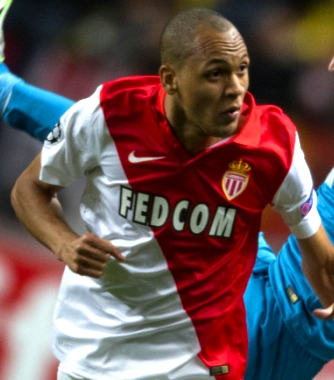 Fábio Henrique Tavares ("Fabinho")